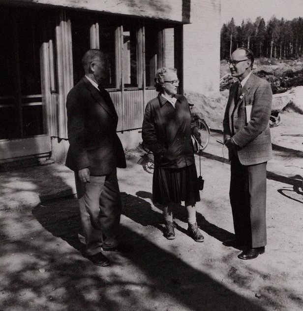 Mr and Mrs J.P. Niven with Dr W.H. Thorpe, Otaniemi, Finland, June 7, 1958 6703 - William Homan Thorpe FRS (1 April 1902 – 7 April 1986)